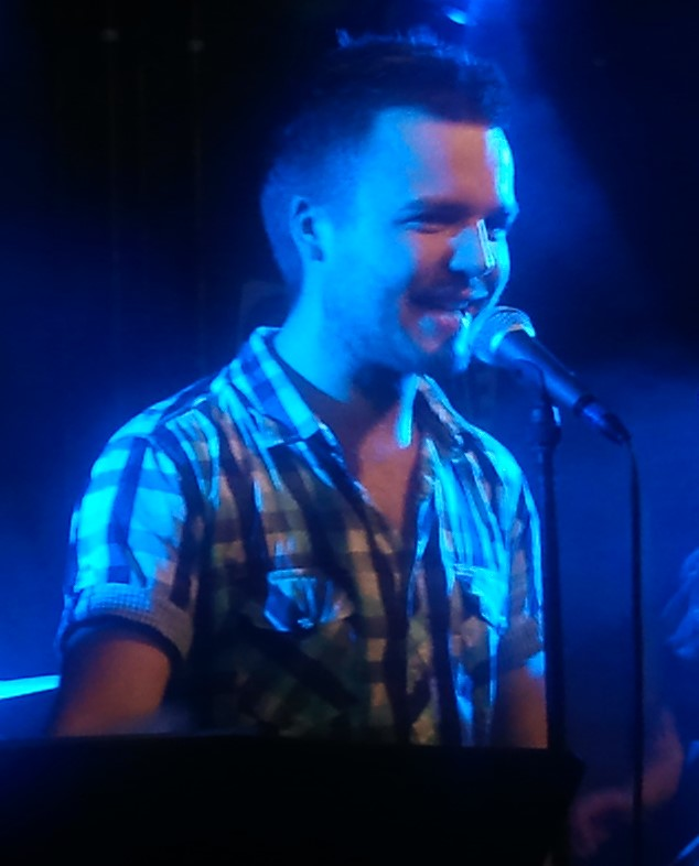 Valters Frīdenbergs performing in a concert of Tumsa in the club "PieLTipa", 12.11.2011.